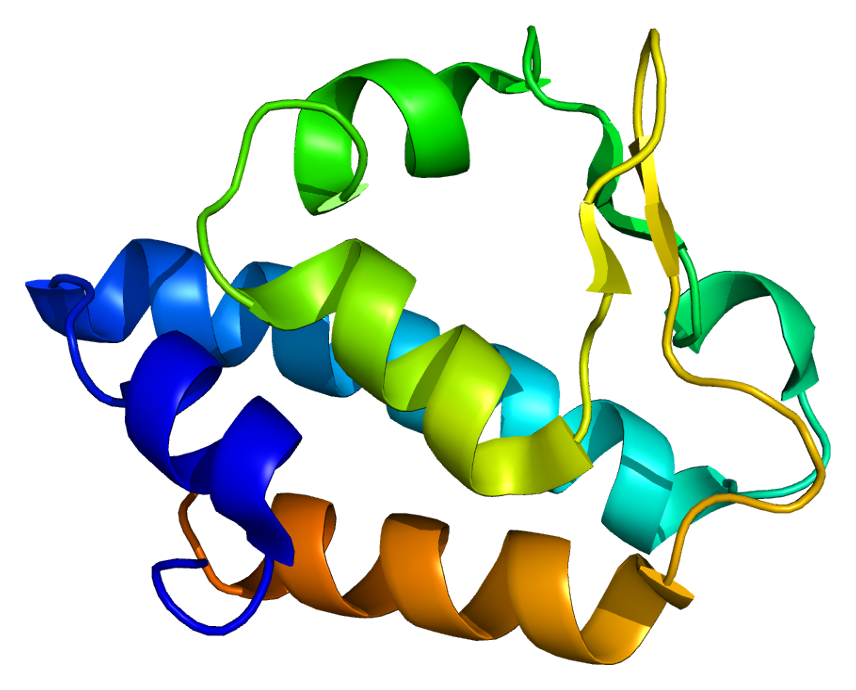 Structure of the NGLY1 protein. Based on PyMOL rendering of PDB 2ccq.